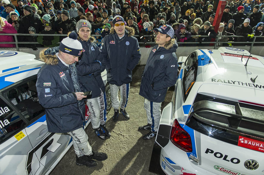 Rally Sweden 2014 Andreas Mikkelsen,Jari-Matti Latvala,Karlstad 1,Miikka Anttila,Motorsport,Rally,Rally Sweden,Rallye,Rallye Schweden,SS1,Sebastien Ogier,WP1